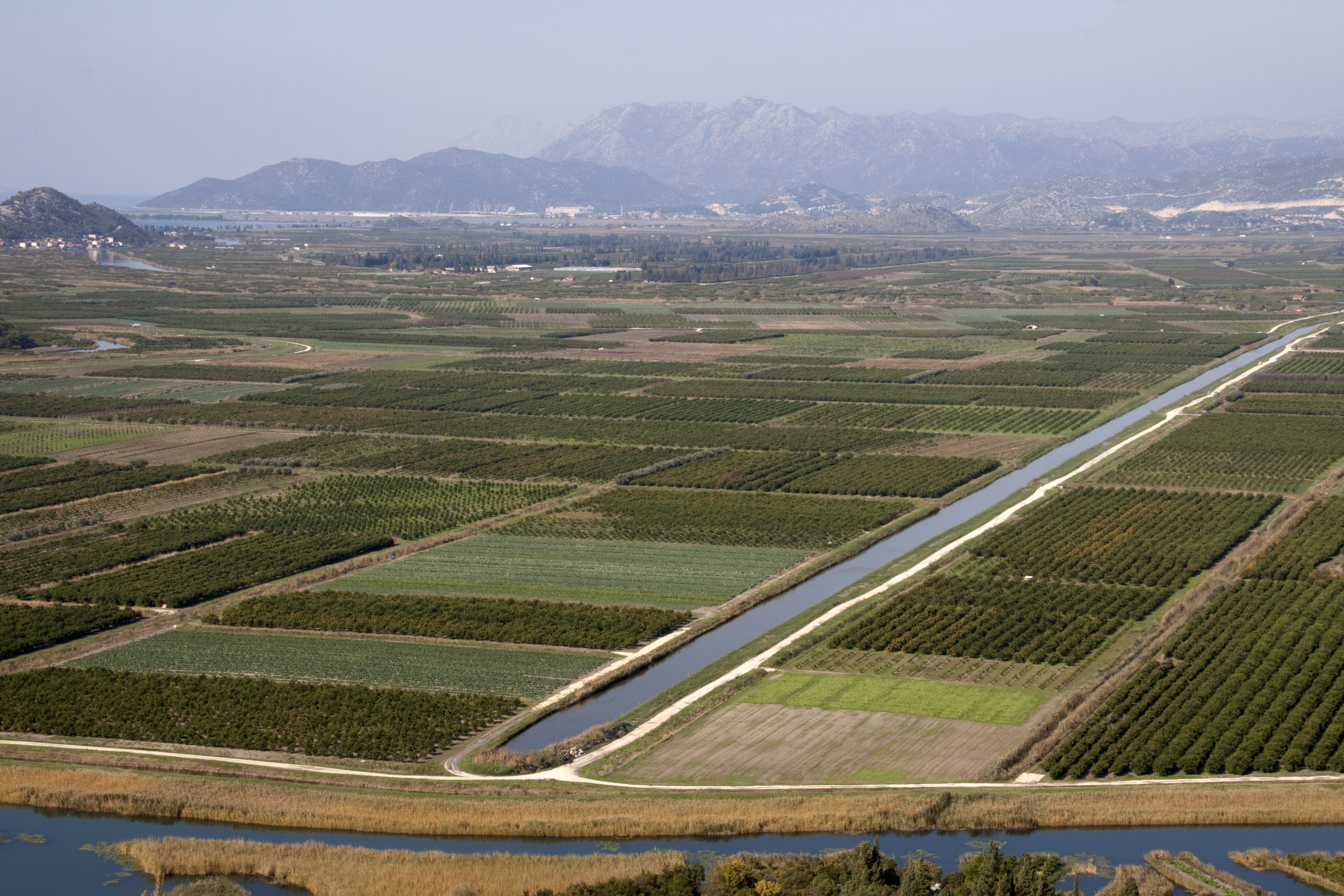 Near Metković, amazing arrangement of fields and irrigation channels.